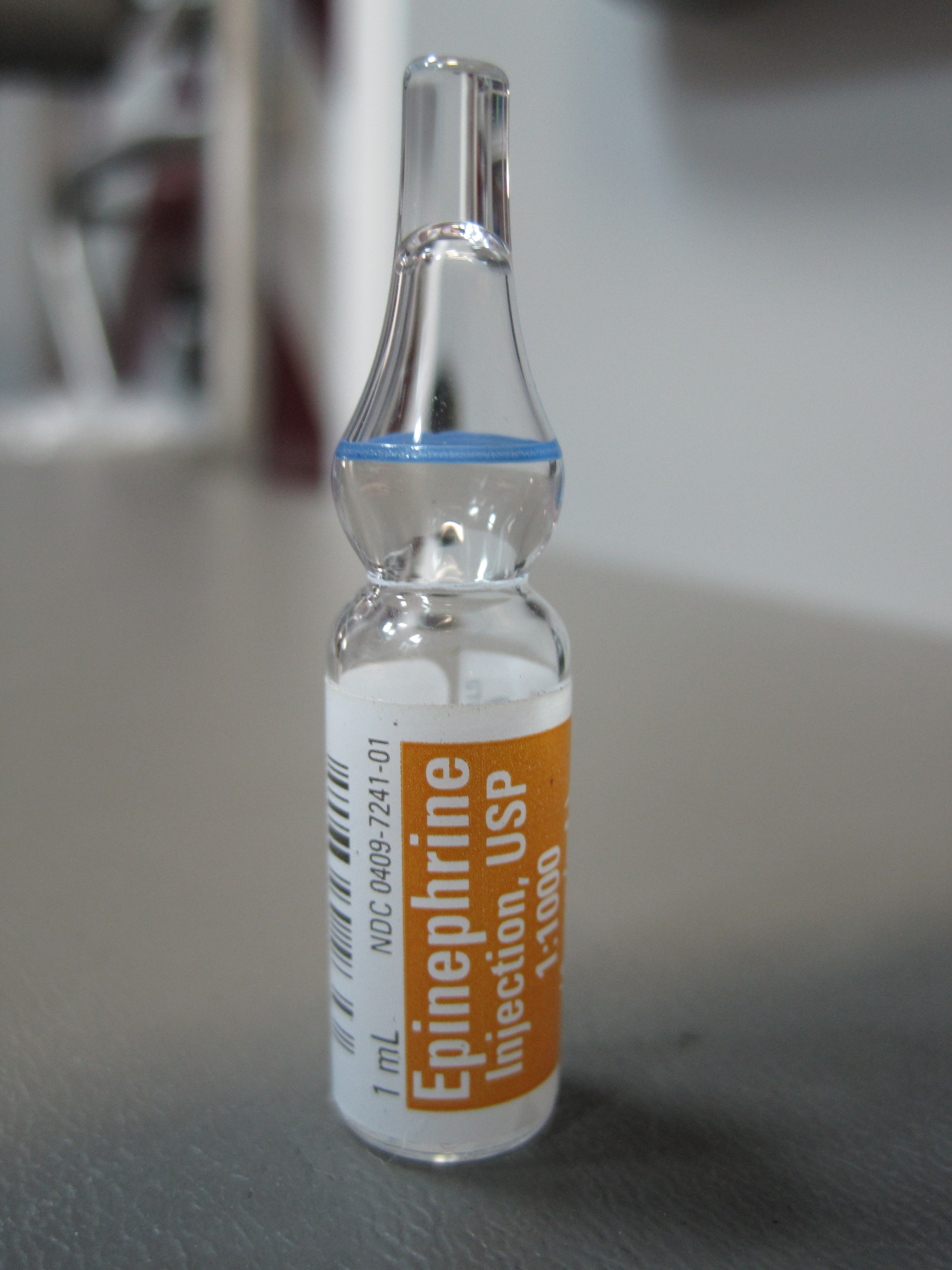 Epinephrine 1:1000 preparation, single dose glass ampule for intramuscular/subcutaneous administration.